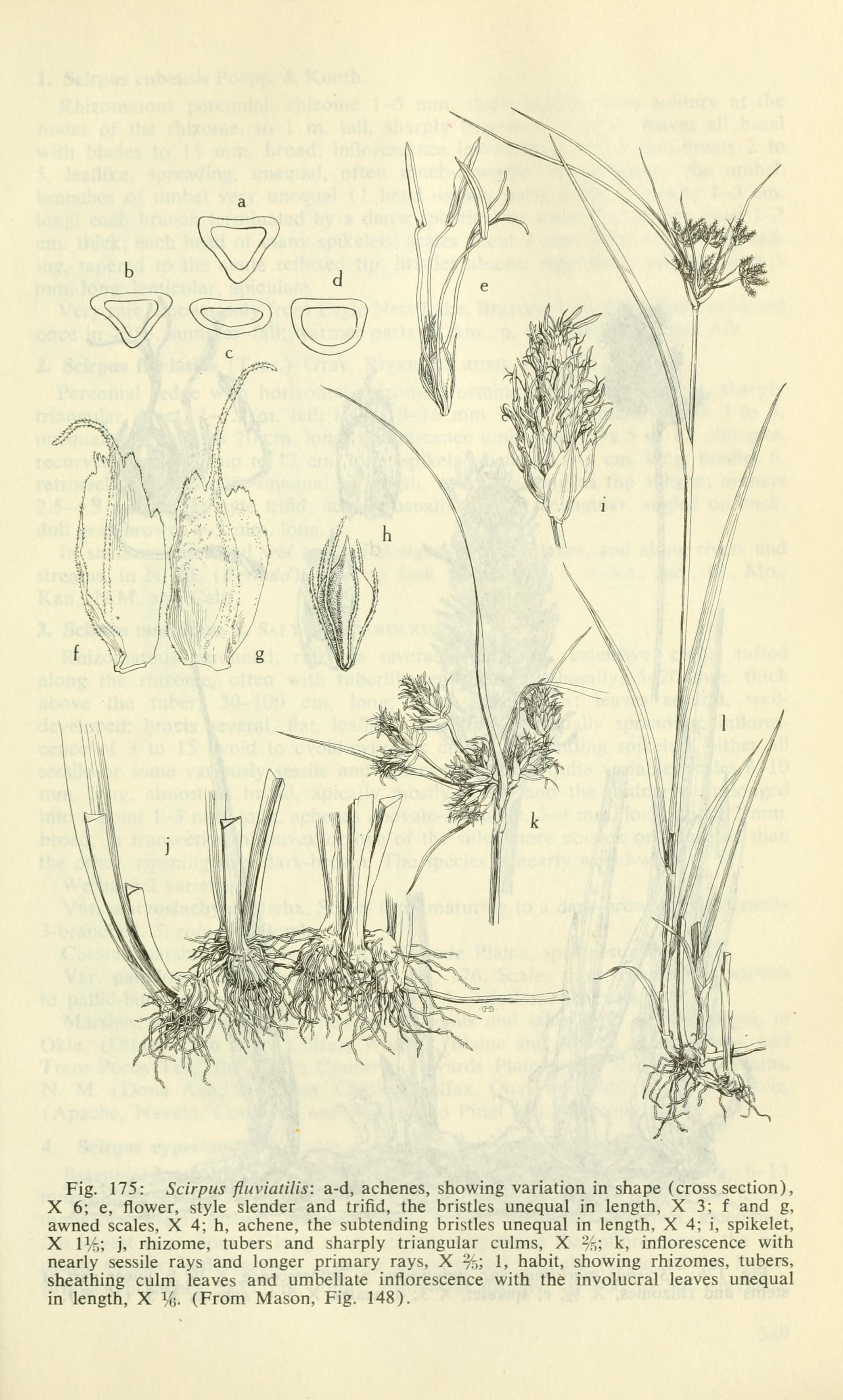 Title: Aquatic and wetland plants of southwestern United States Year: 1972 (1970s) Authors: Correll, Donovan Stewart, 1908-; Correll, Helen B Subjects: Aquatic plants -- Southwestern States; Wetland plants -- Southwestern States Publisher: [Washington Environmental Protection Agency; [For sale by the Supt. of Docs. , U. S. Govt. Print. Off. Text Appearing Before Image: ' Text Appearing After Image: Fig. 175: Scirpus fluviatilis: a-d, achenes, showing variation in shape (cross section), X 6; e, flower, style slender and trifid, the bristles unequal in length, X 3; f and g, awned scales, X 4; h, achene, the subtending bristles unequal in length, X 4; i, spikelet, X ly-,; j, rhizome, tubers and sharply triangular culms, X %; k, inflorescence with nearly sessile rays and longer primary rays, X %; 1, habit, showing rhizomes, tubers, sheathing culm leaves and umbellate inflorescence with the involucral leaves unequal in length, X %• (From Mason, Fig. 148).